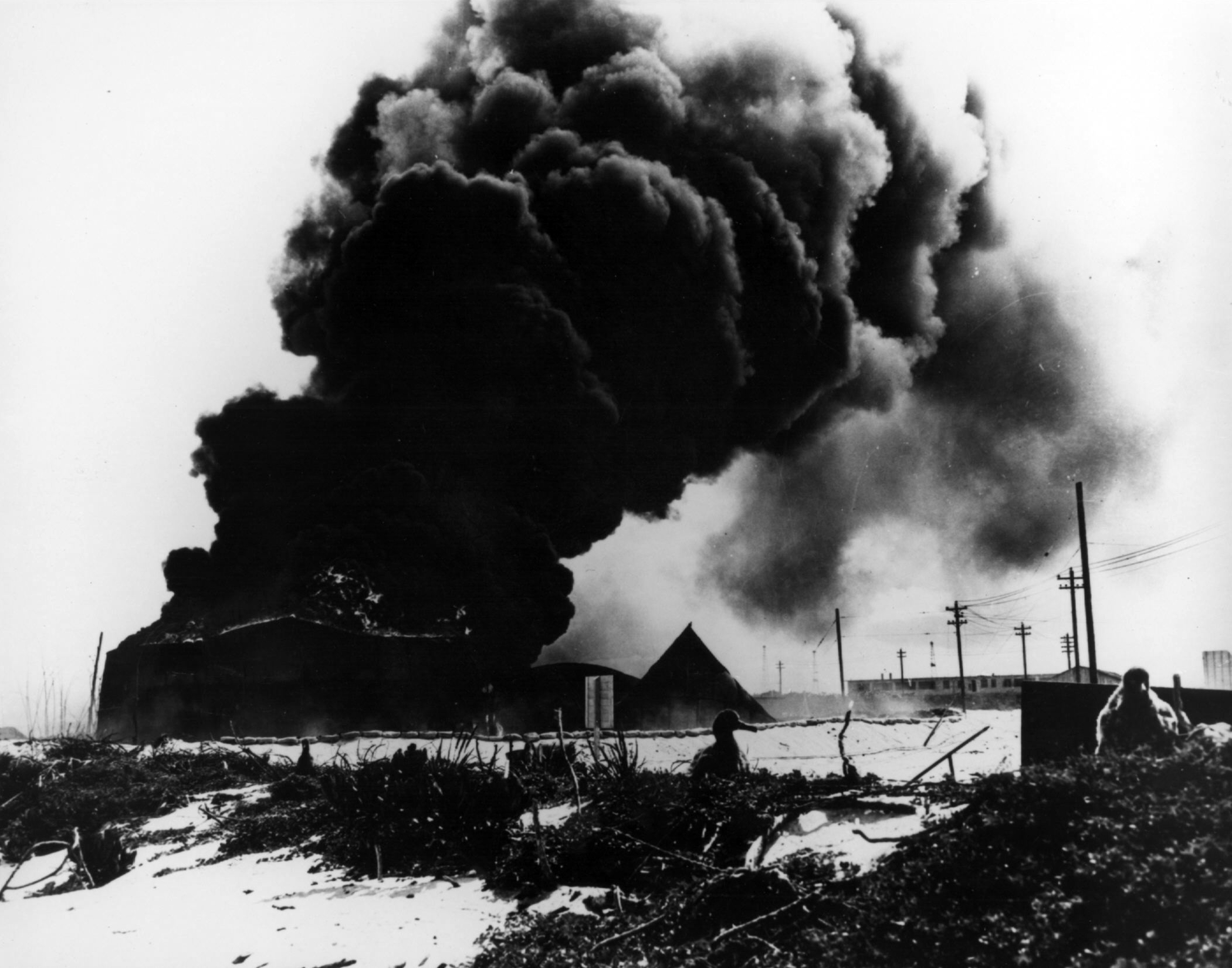 Burning oil tanks on Sand Island, Midway Atoll, following the Japanese air attack delivered on the morning of 4 June 1942 during the Battle of Midway. These tanks were located near what was then the southern shore of Sand Island. This view looks inland from the vicinity of the beach. Three Laysan Albatross ("Gooney Bird") chicks are visible in the foreground.